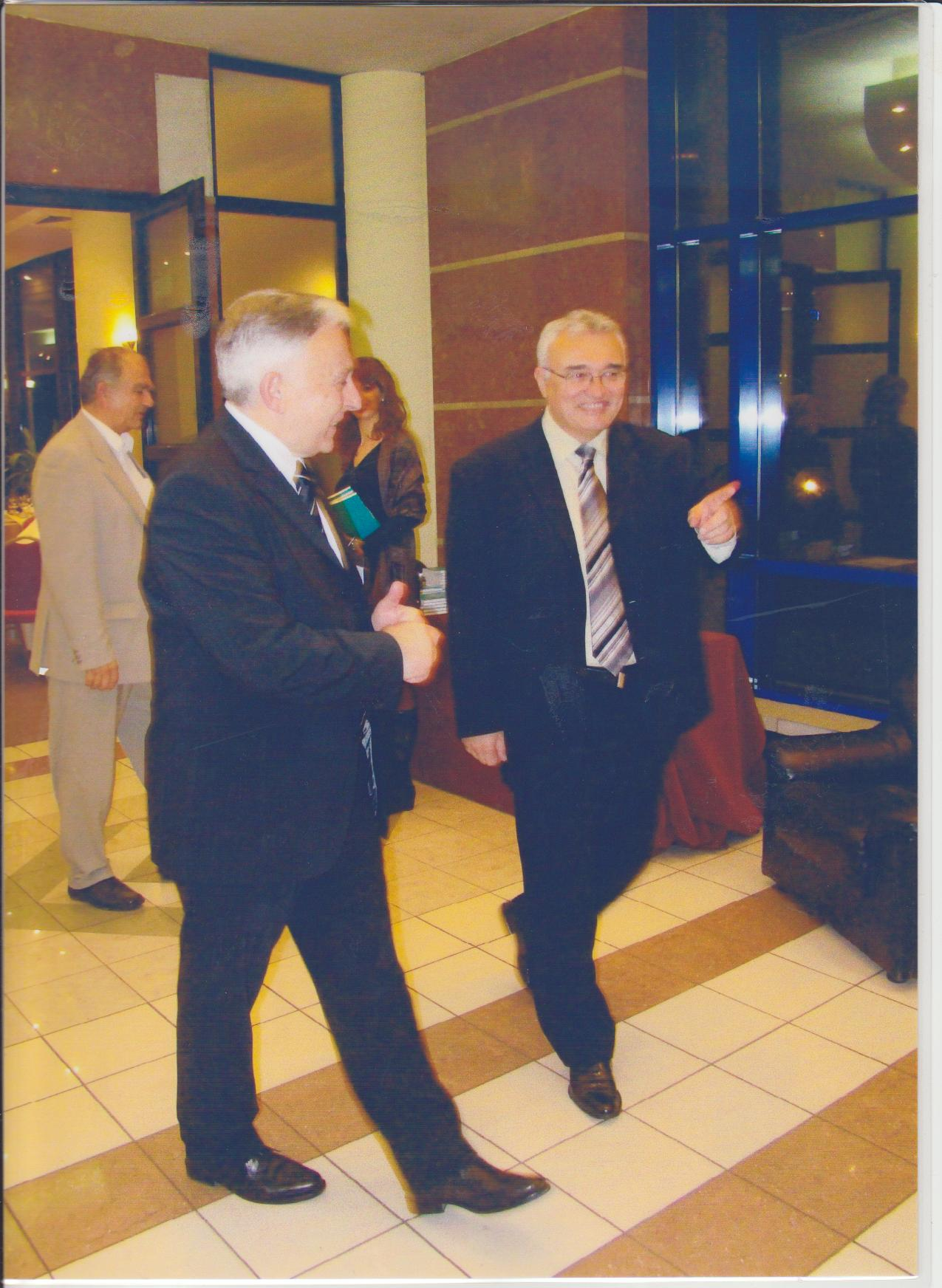 BNR